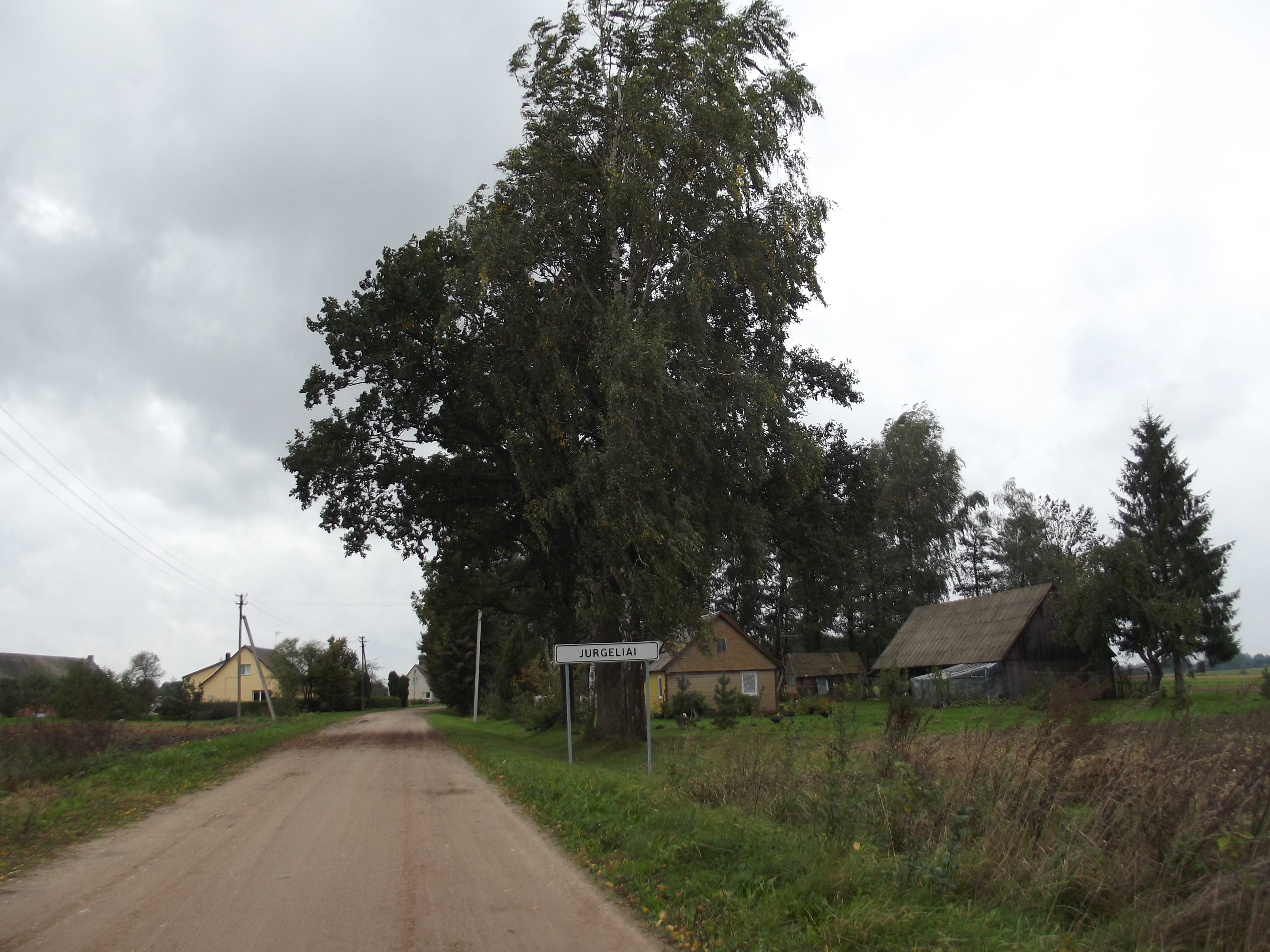 Jurgeliai, Vilkaviškis District, Lithuania